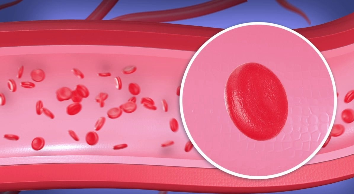 Numri i eritrociteve gjate shtezanise